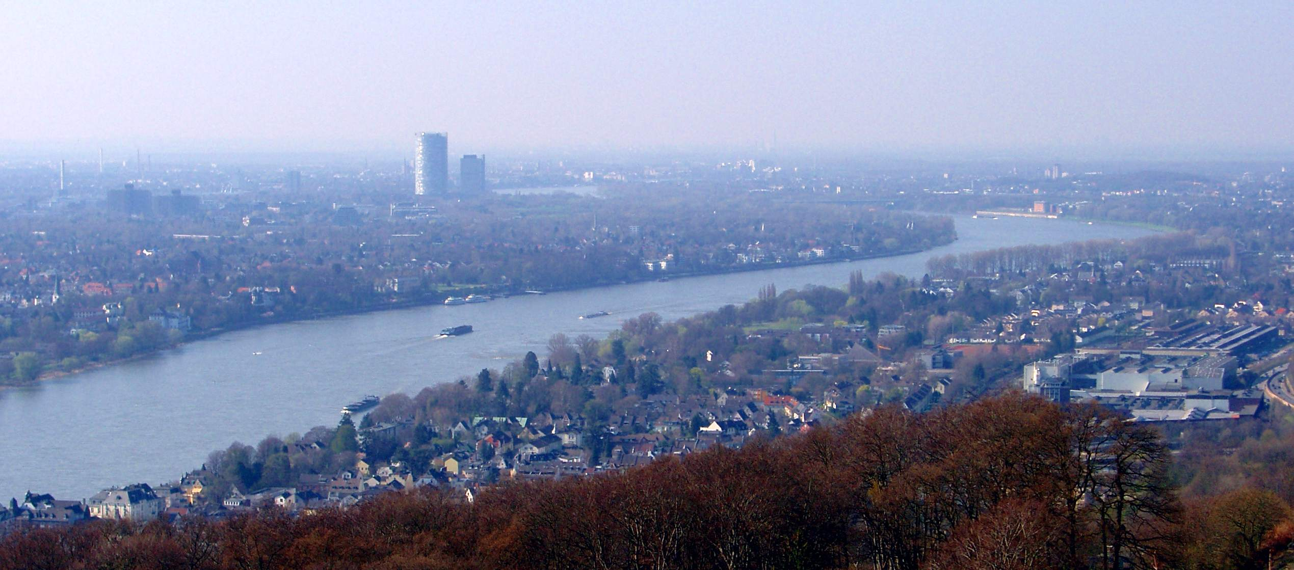 Königswinter and Bonn seen from the Drachenfels, Post Tower and Langer Eugen can be seen in the background.